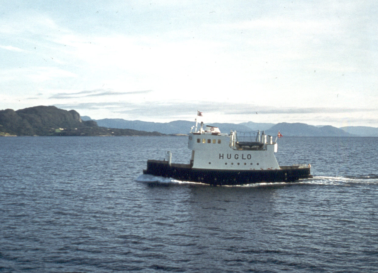 M/F Huglo, built 1962.